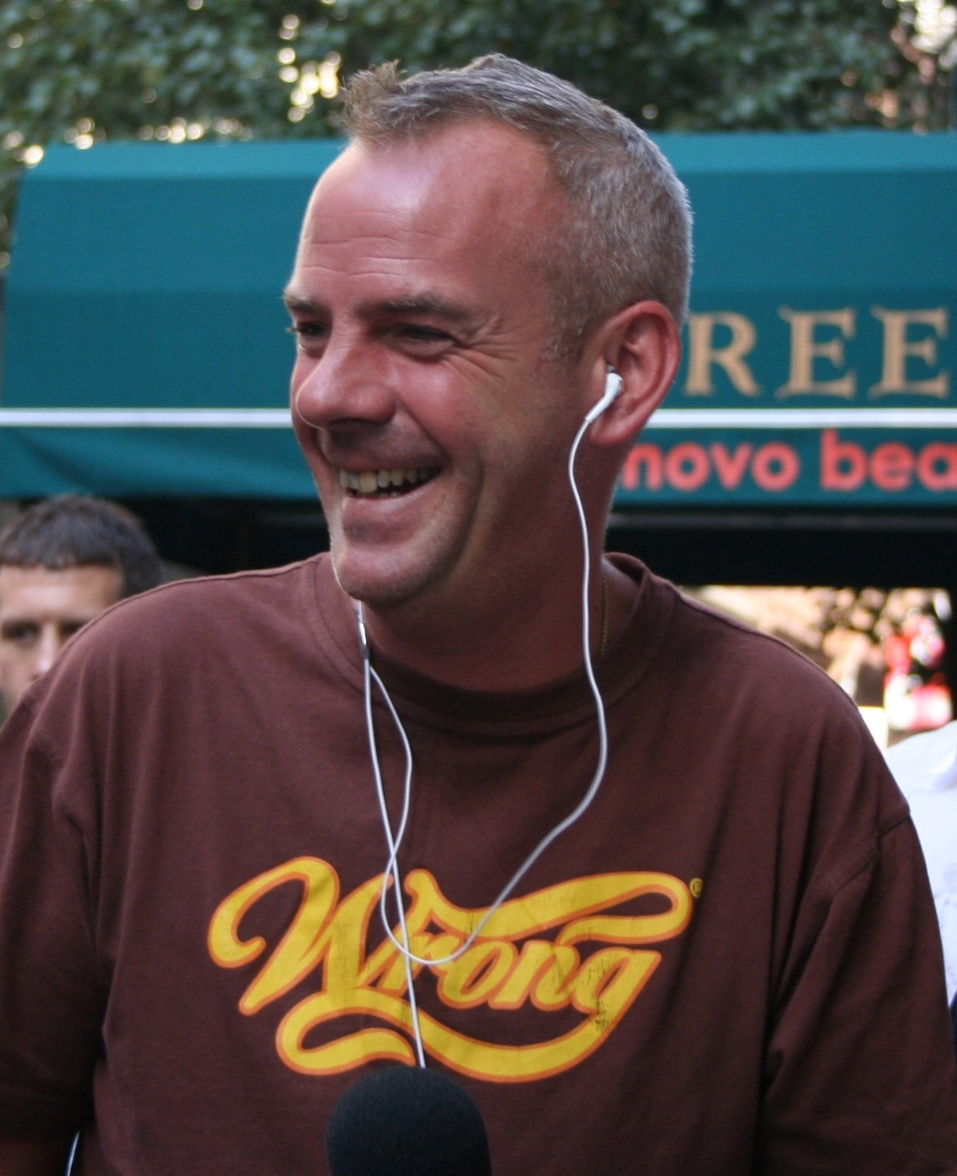 Photo of Fatboy Slim being interviewed.